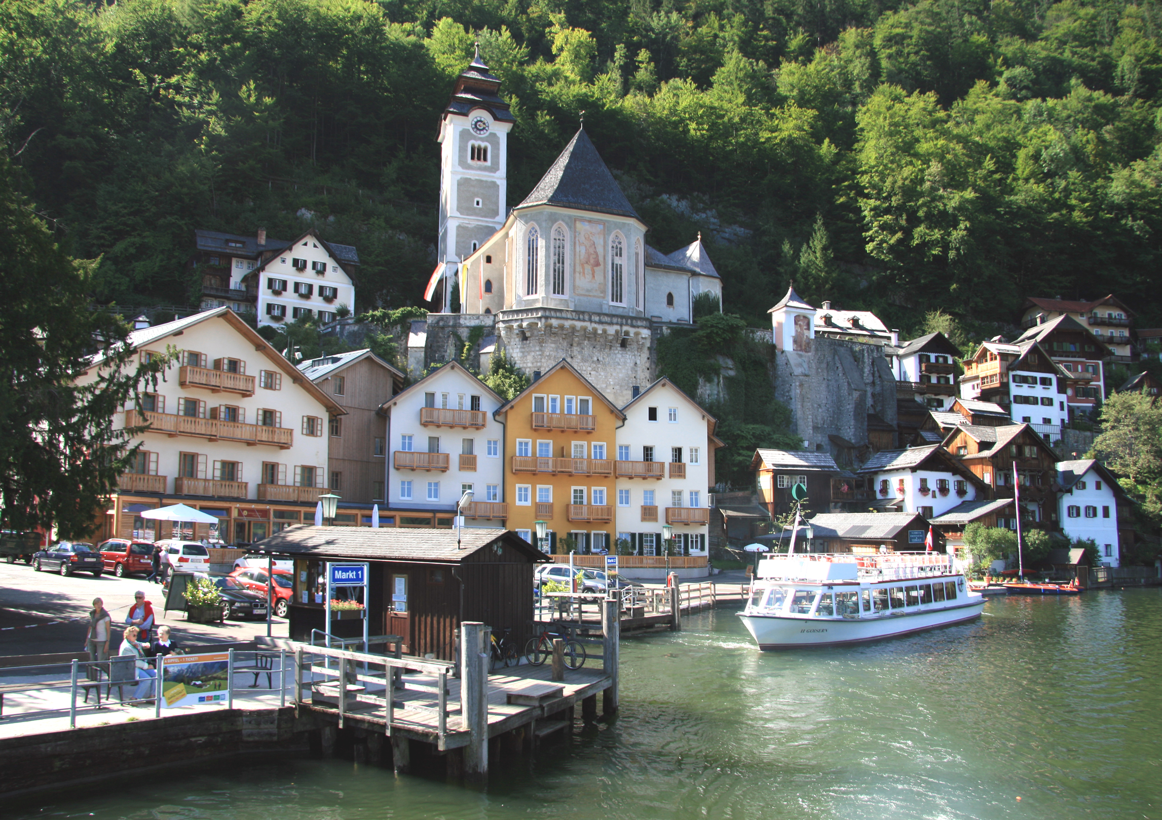 View from ship from lake Hallstätter See to small city Hallstatt, Upper Austria